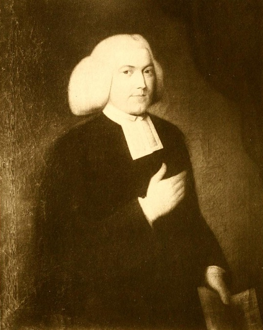 Portrait of Dutch-Reformed pastor Archibald Laidlie